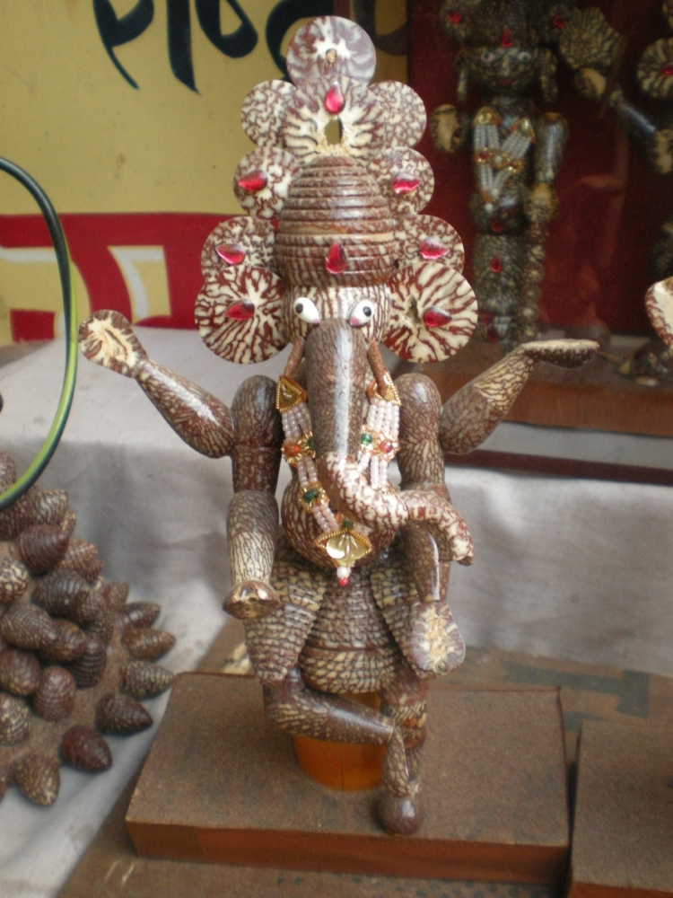 Ganesha made with Areca nut